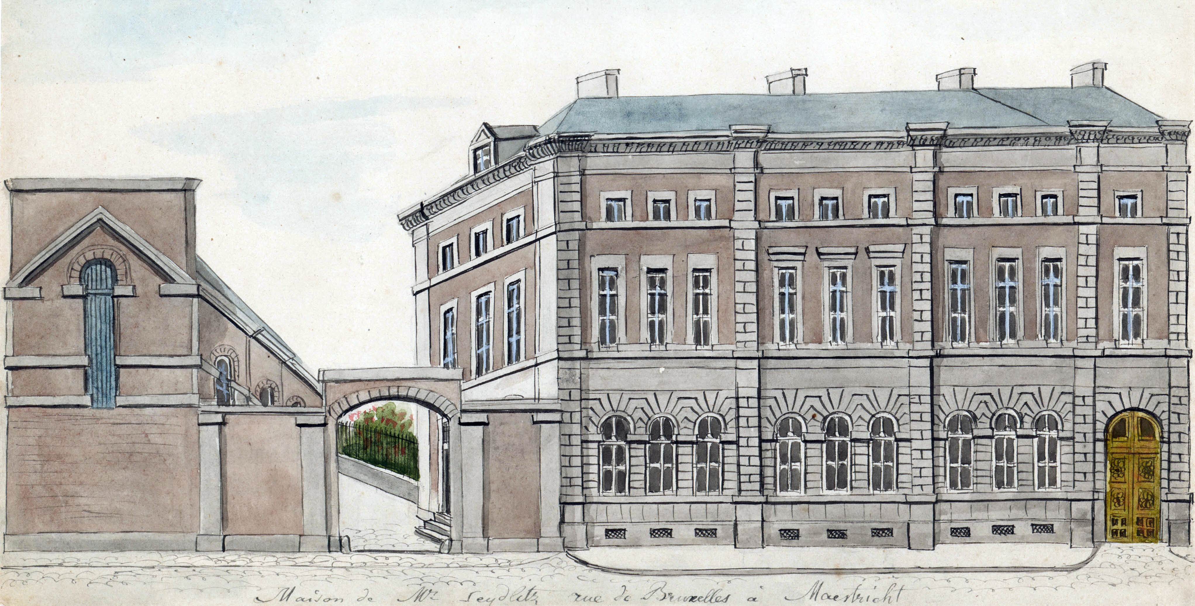 Drawing by Philippe van Gulpen of the salt factory of Hubert Seidlitz (later Jos Marres) in Maastricht, Netherlands. Here: the factory gate and office building in Brusselsestraat.